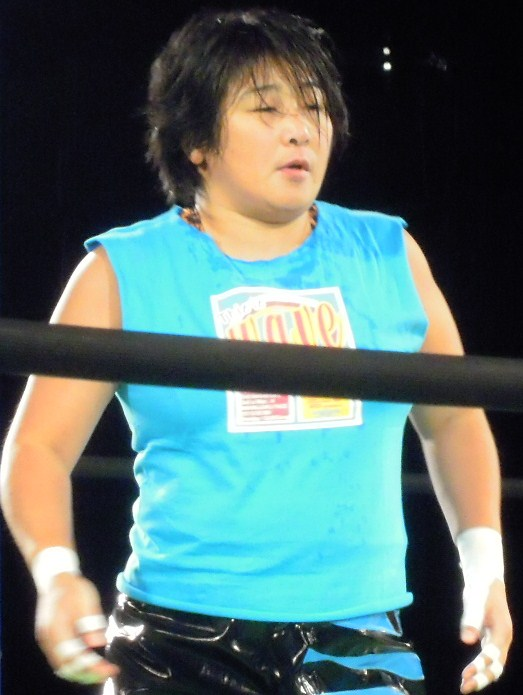 Japanese professional wrestler,GAMI. Jan 4 2011, WAVE Shinjuku FACE.